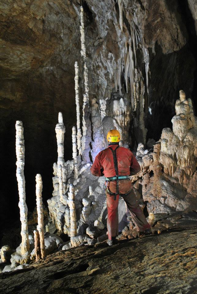 This image was uploaded as part of Trace of Soul 2015.